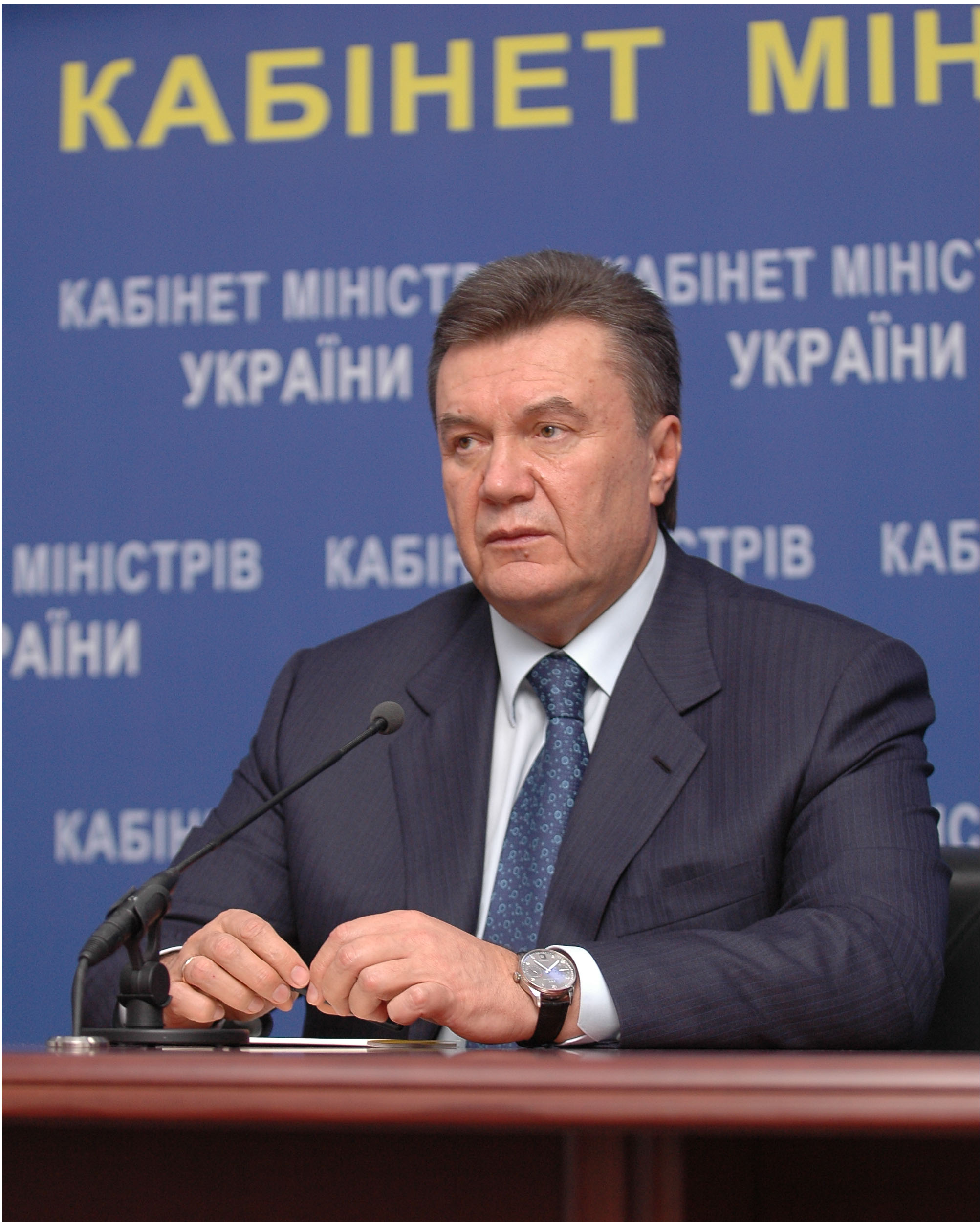 Viktor Yanukovich